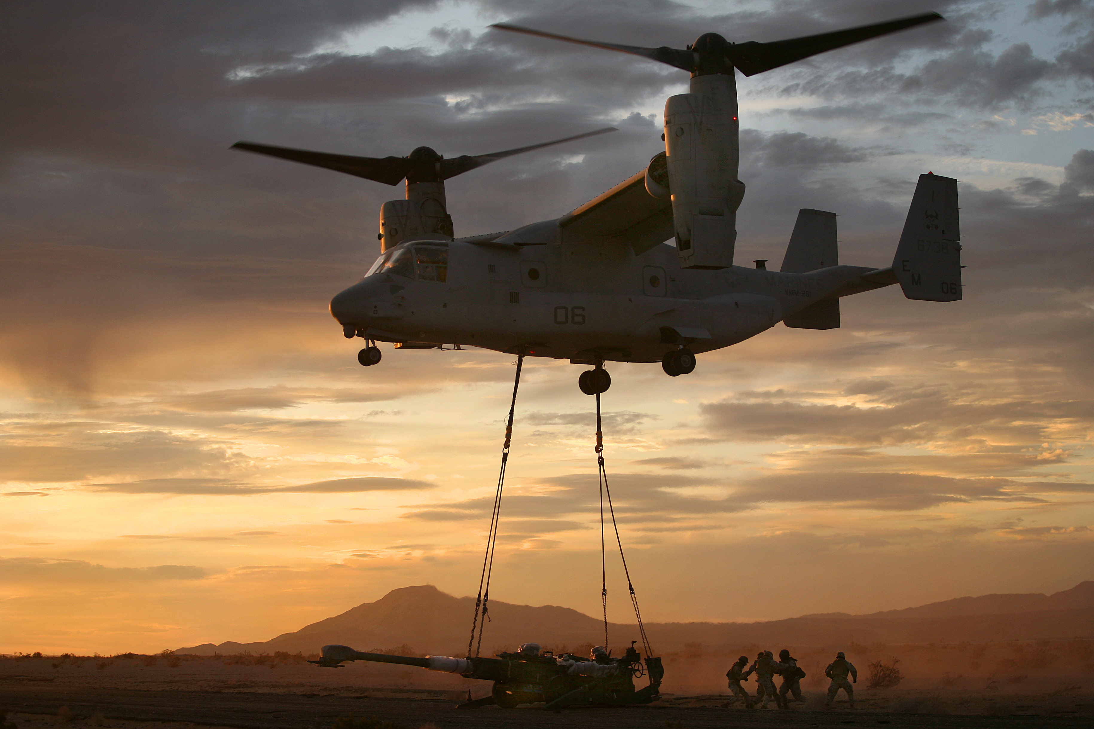 GUN CONTROL Marine Corps MV-22 Osprey aircraft lifts a 7,000-pound M777 Lightweight Howitzer with the help of Combat Logistics Battalion 46 during an airlift operation at Landing Zone Sandhill aboard the training area of the Marine Corps Air Ground Combat Center Twentynine Palms, Calif., July 10.